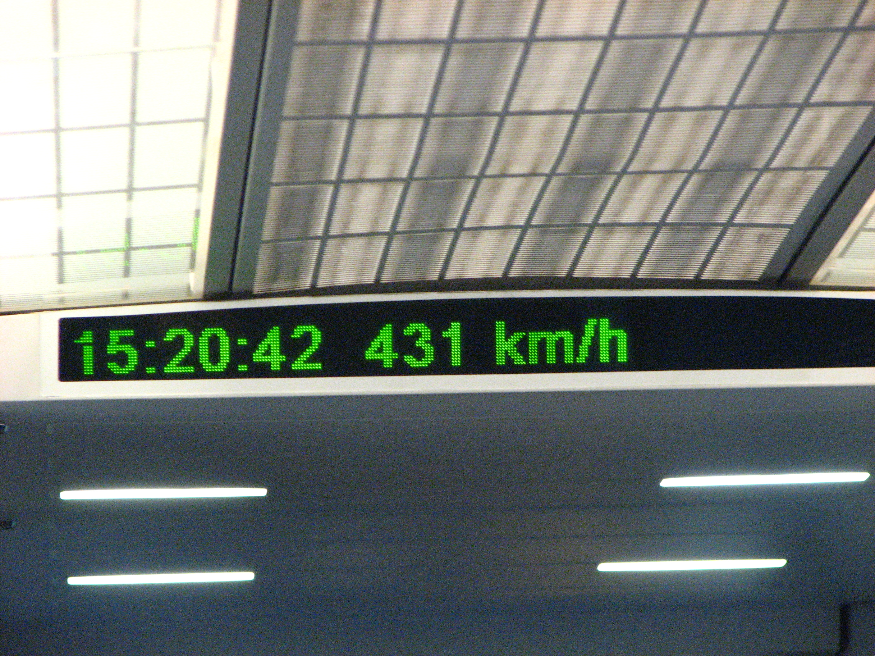 Maximum speed of Shanghai Maglev, 431km/hr